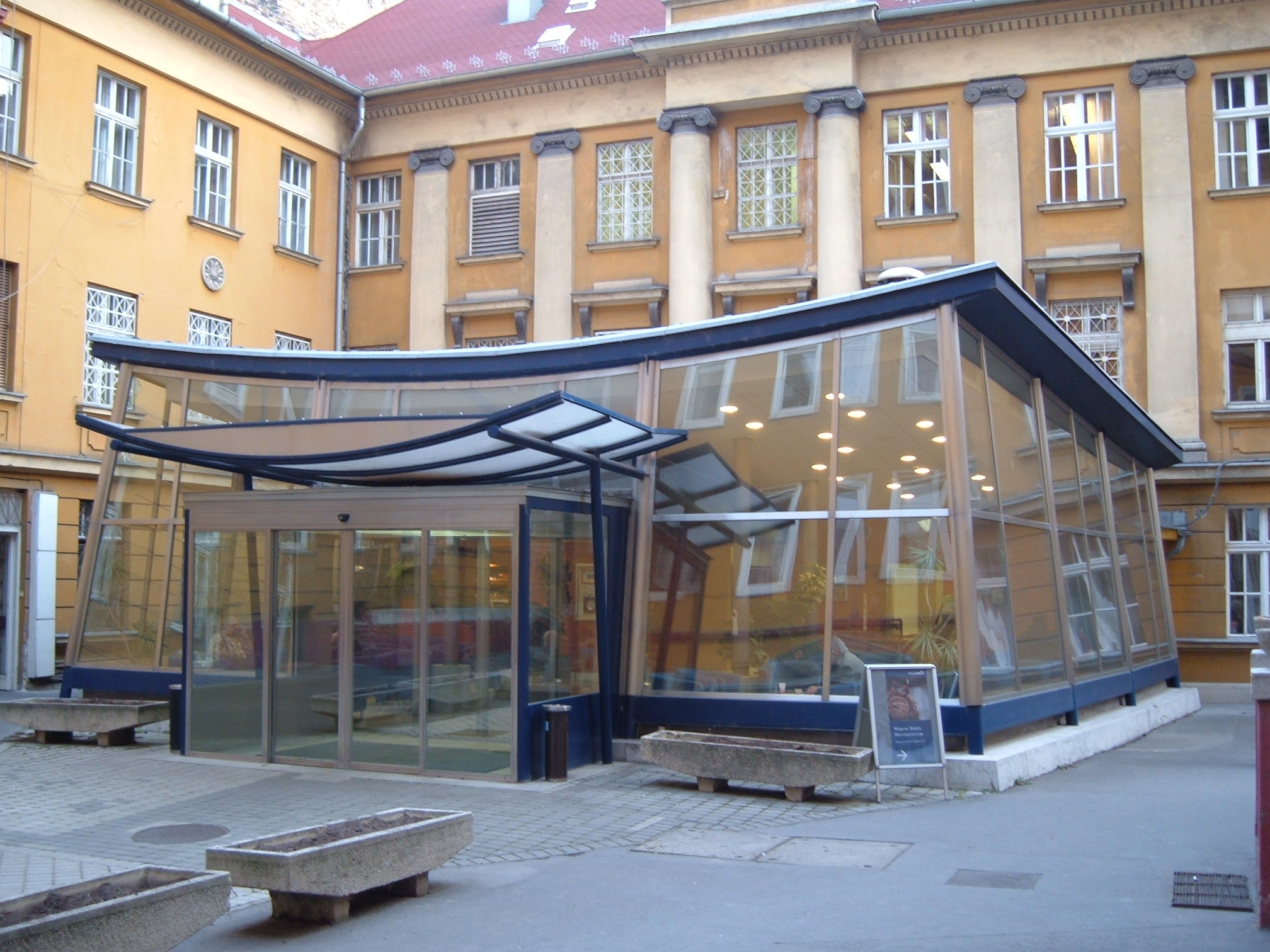 The so-called Pagoda on the courtyard of the Hungarian Radio HQ, Budapest